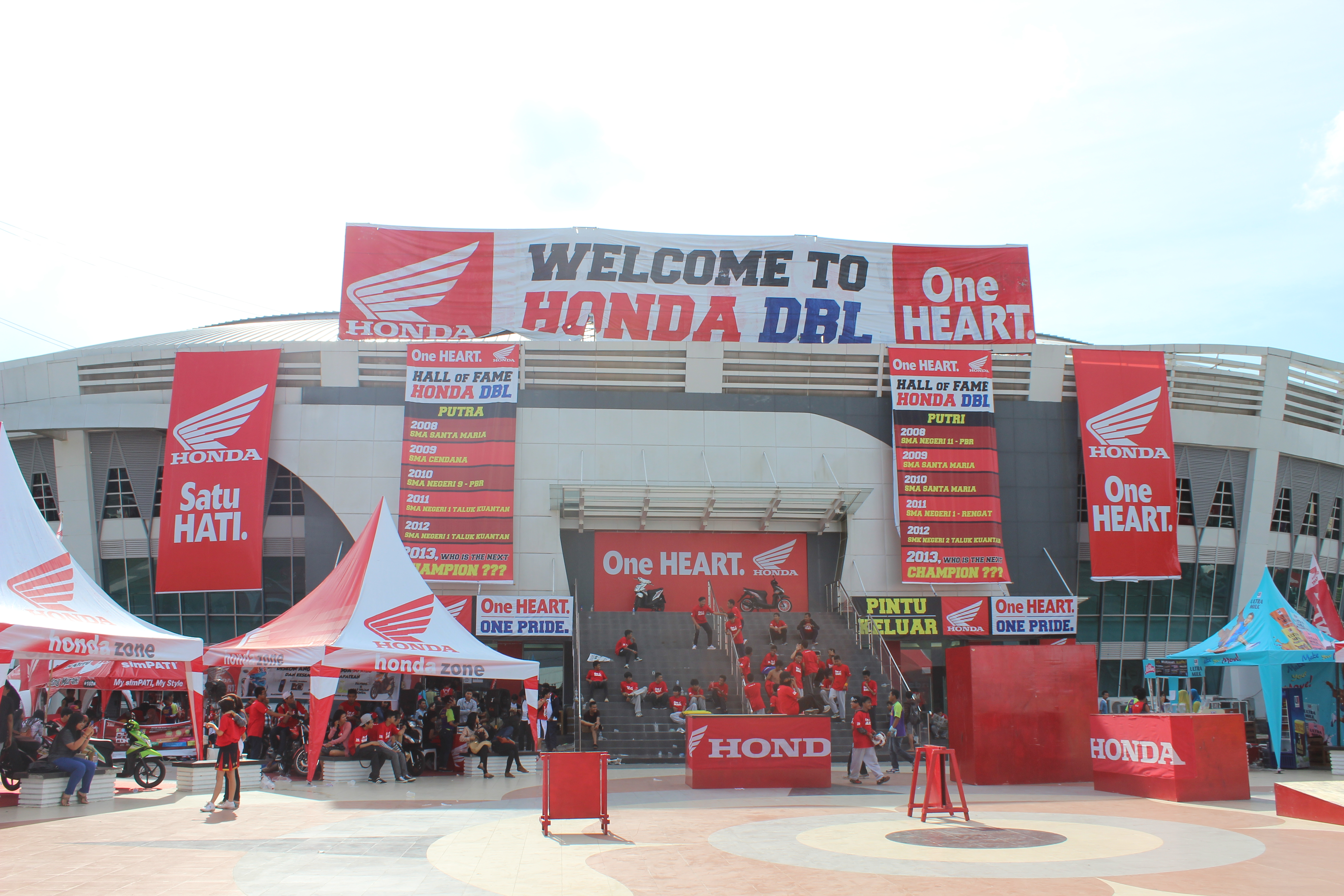 Gelanggang Remaja Pekanbaru, Jl. Sudirman, Pekanbaru, when DBL basketball league match held there.